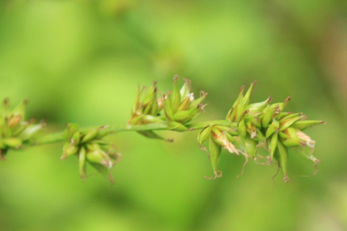 Carex polyphylla: Fruits